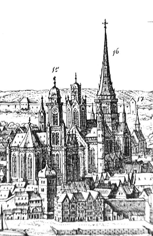 Mainz Cathedral (behind the Liebfrauenkirche (Church of Our Lady - destroyed 1793) 1633